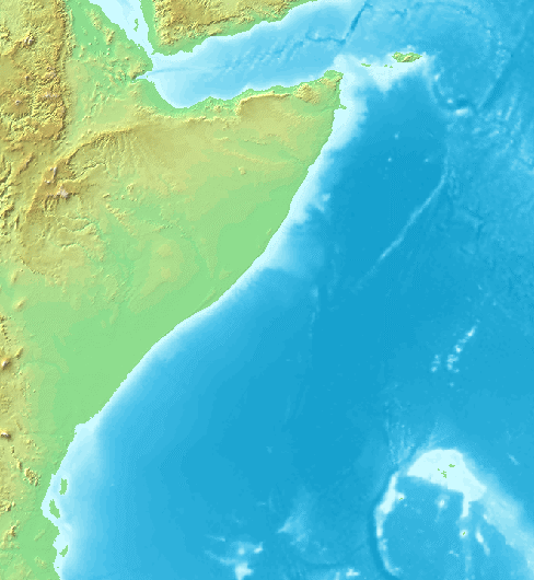 Croped version of an image formed by the merging of Image:WorldMap 0-0-90-90.png and Image:WorldMap 0,-90,90,0.png. Map covers the general area where the Somali pirates operate.